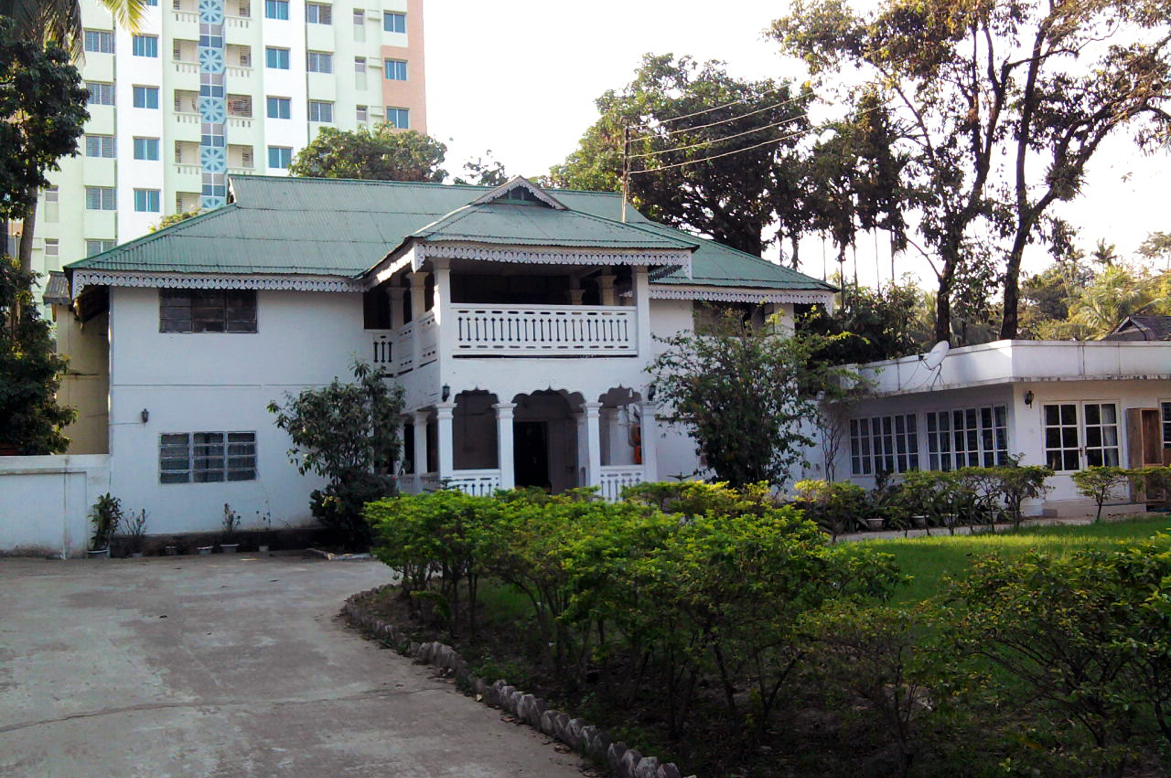 Guest house in Sylhet, Bangladesh